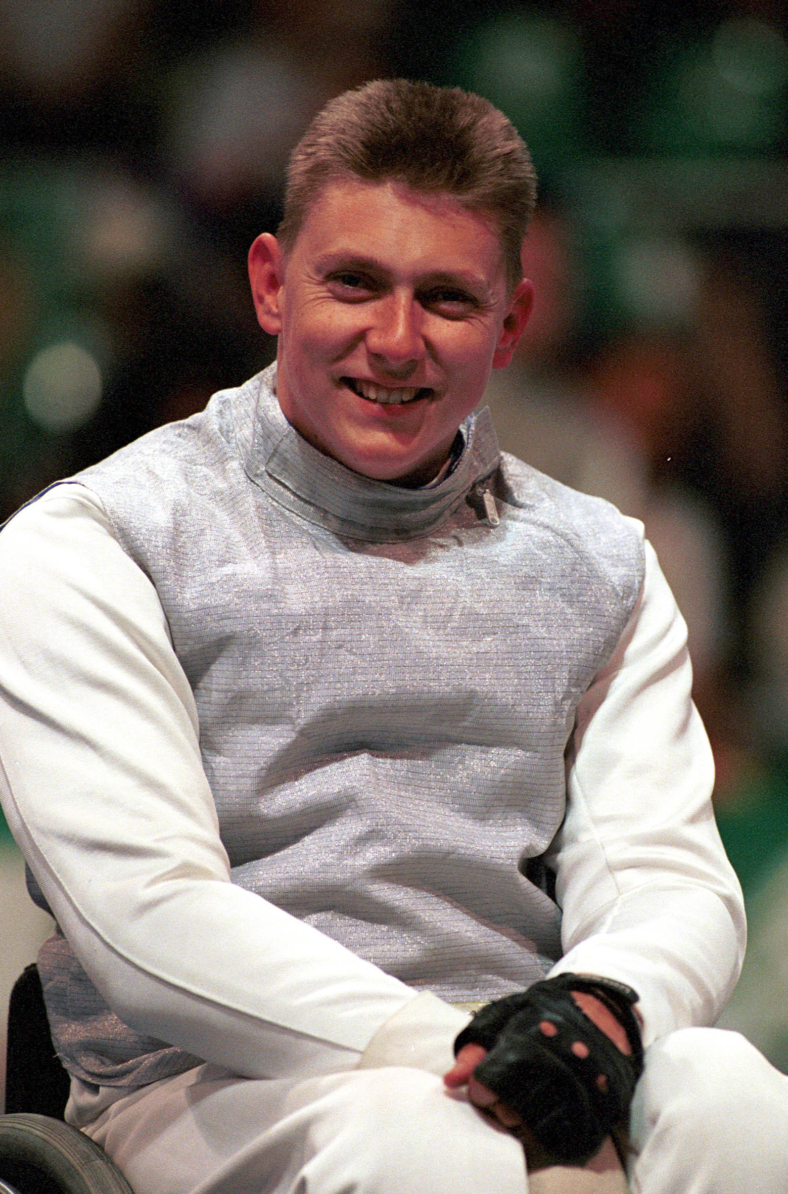 Australian wheelchair fencer Michael Alston smiling during 2000 Sydney Paralympic Games